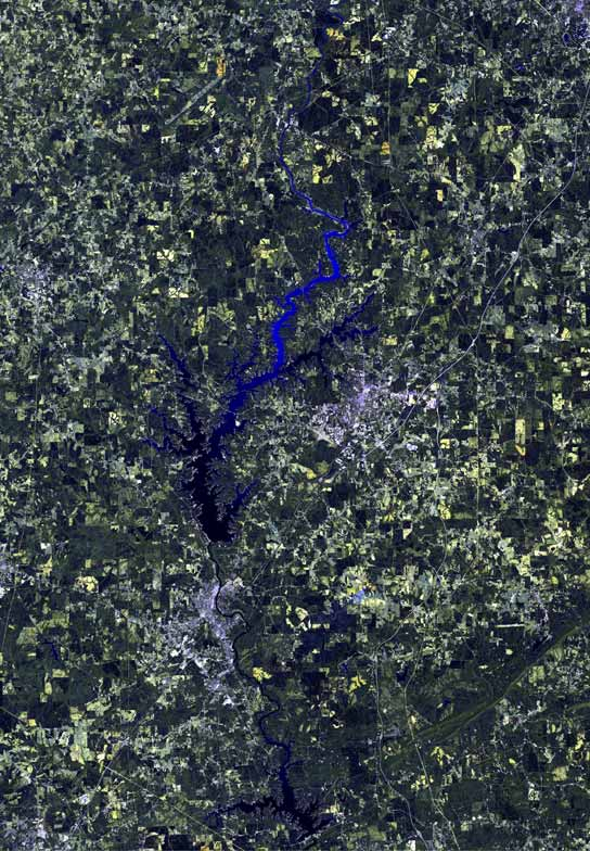 The raw satellite imagery shown in these images was obtain from NASA and/or the US Geological Survey. Post-processing and production by